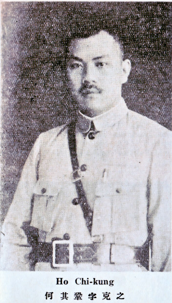 He Qigong (Ho Ch'i-kung) (1898 - 1955)